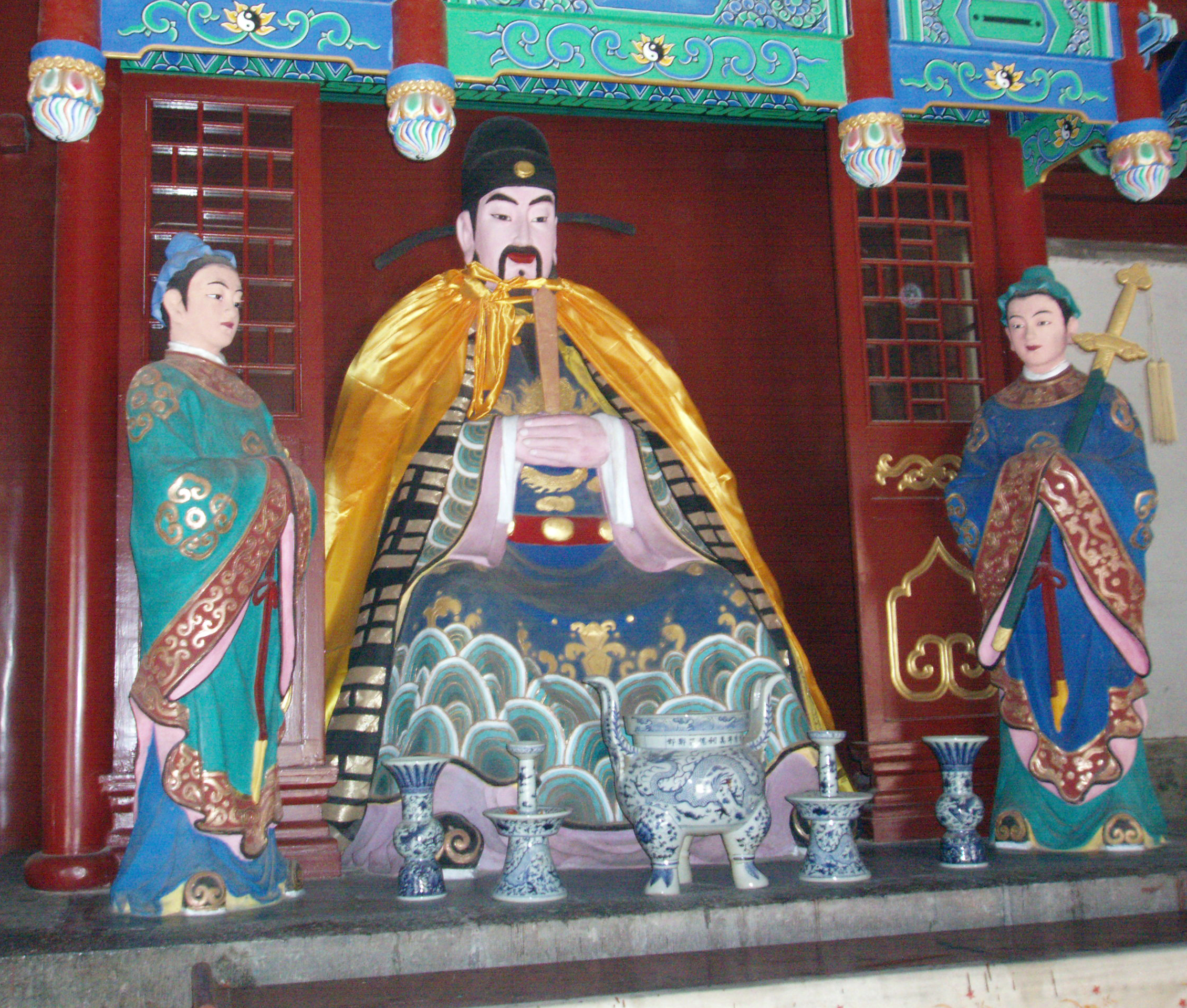 Lu Dongbin statue, a celestial of Chinese myth.